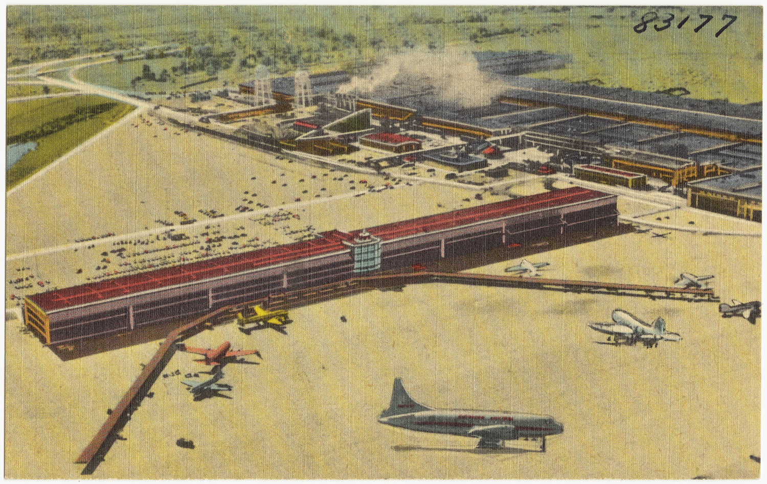 File name: 06_10_014955 Title: Willow Run Airport, Ypsilanti, Michigan Date issued: 1930 - 1945 (approximate) Physical description: 1 print (postcard) : linen texture, color ; 3 1/2 x 5 1/2 in. Genre: Postcards Subject: Airports Notes: Title from item. Collection: The Tichnor Brothers Collection Location: Boston Public Library, Print Department Rights: No known restrictions